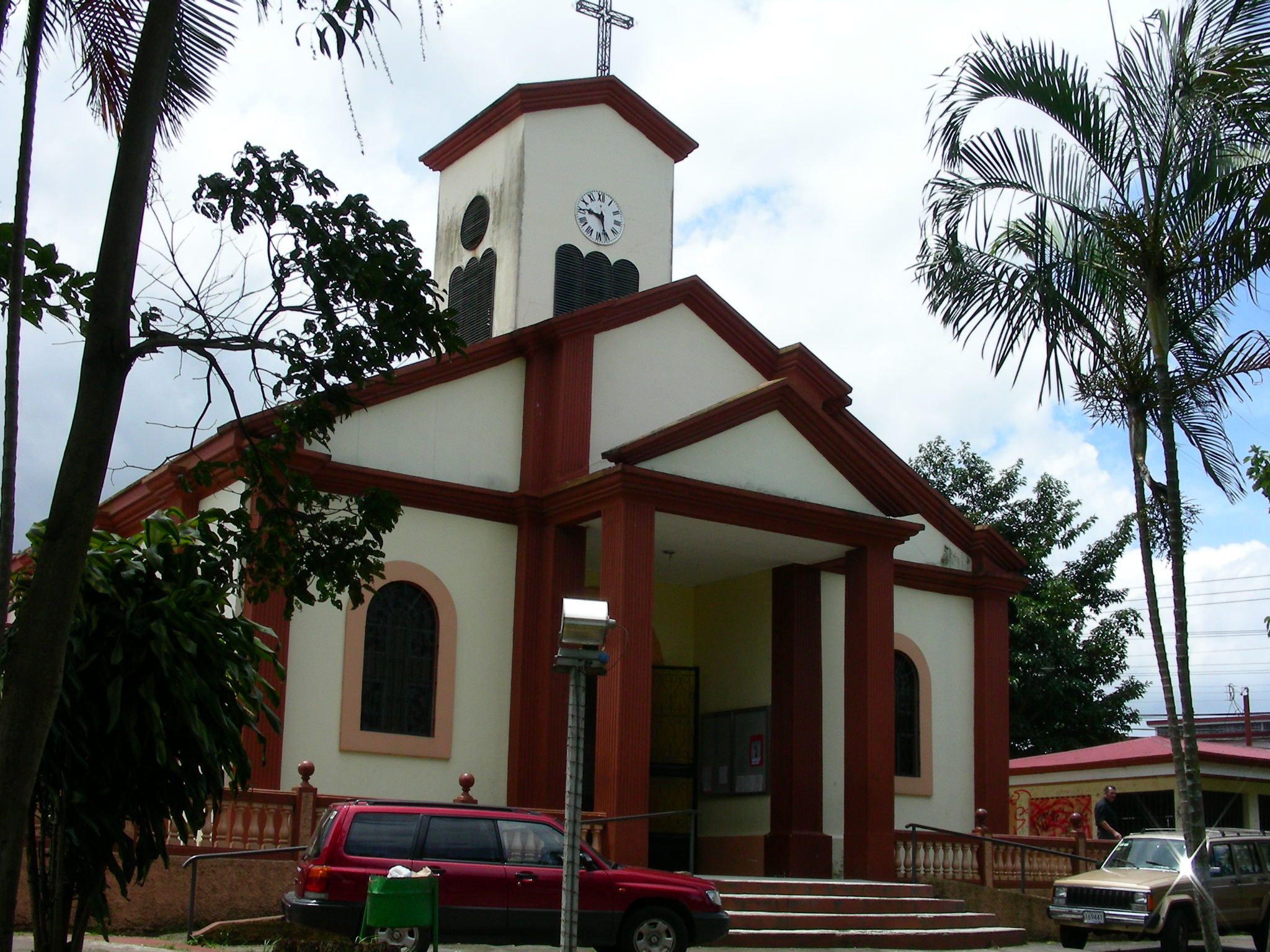 Saint Ramón Nonato's Church, Sabanilla, Montes de Oca, San José Costa Rica.